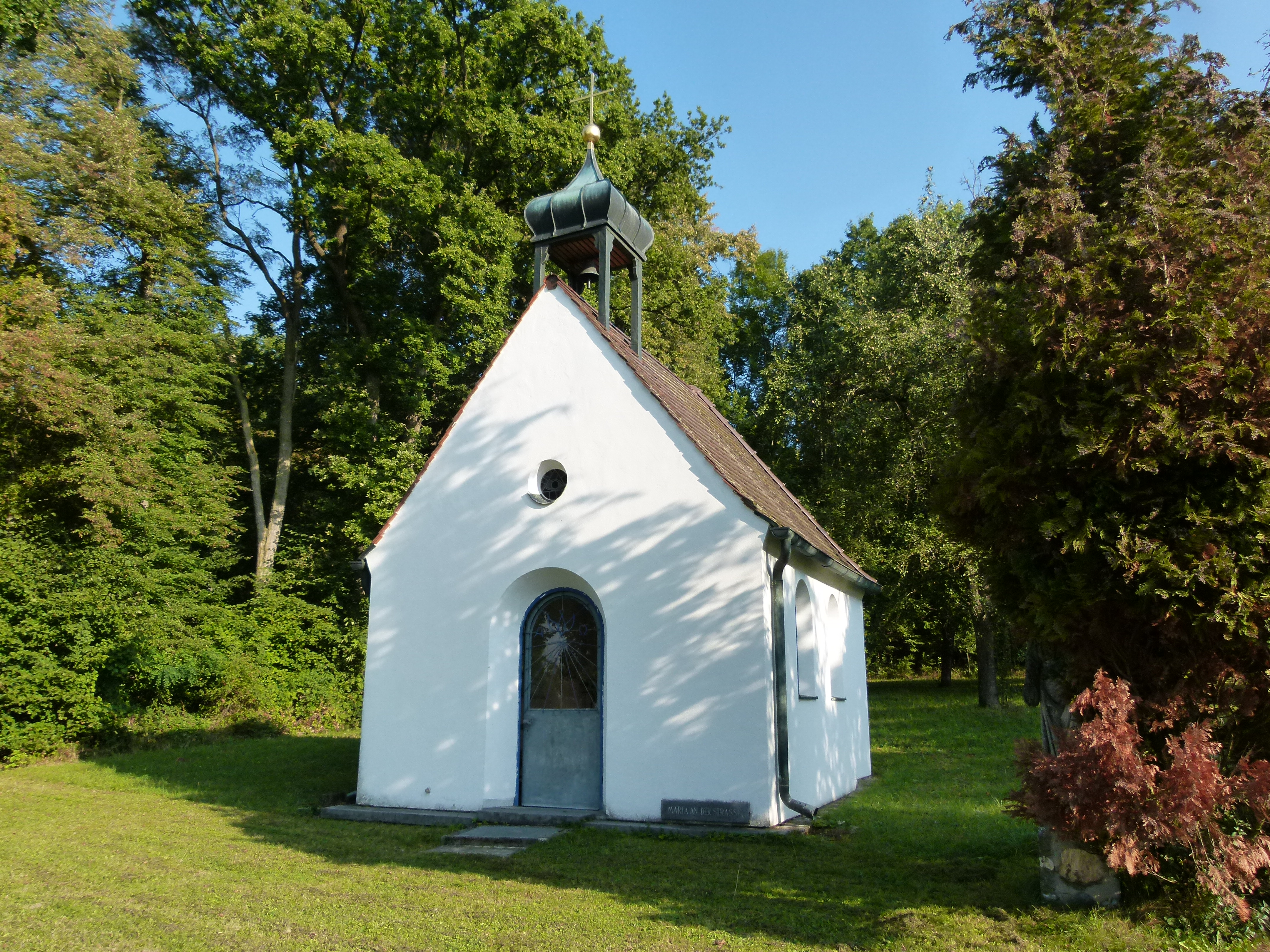 Roadside chapel Maria an der Straße near Burgmannshofen.